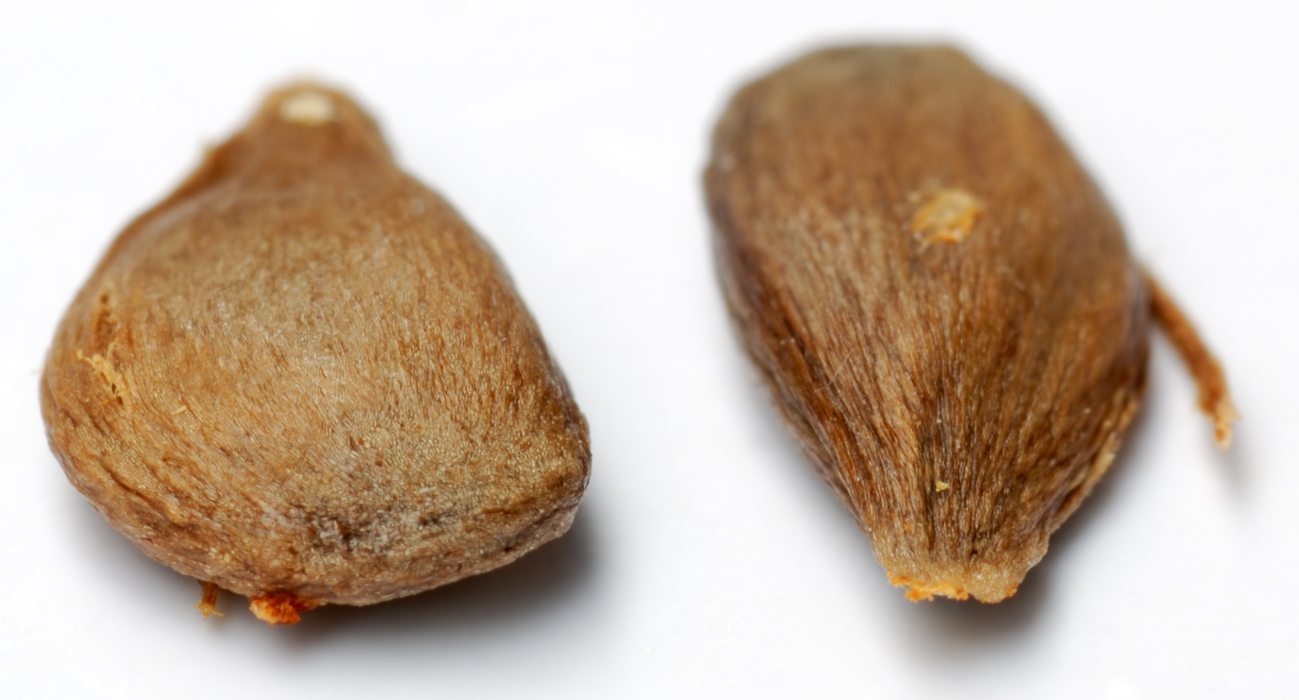 This image shows a few apple seeds of the variety "Graue Französische Renette". The length of each seed is about 7,5 mm (0.3 inch). Thanks to Conny for providing the objects and for the assistance during the photo session.